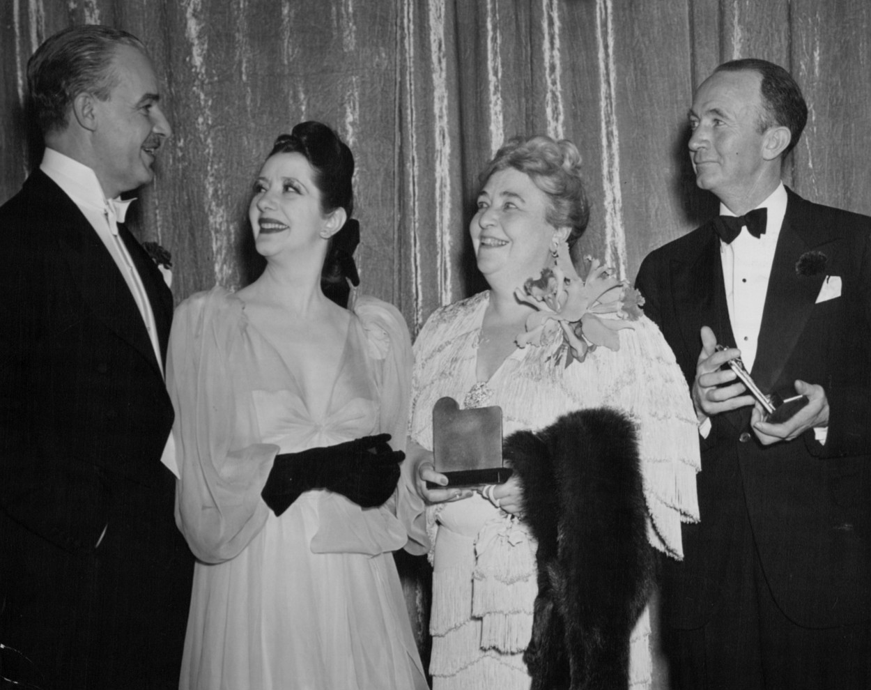 Pohoto of Alfred Lunt and Lynn Fontanne congratulating Jane Darwell and Walter Brennan for their Academy Award wins of Best Supporting Actress and Actor for the year 1940. A search for original copyright was done in artwork for the year 1941. There were no listings for Acme News Photos. There's no evidence of original copyright on this photo.